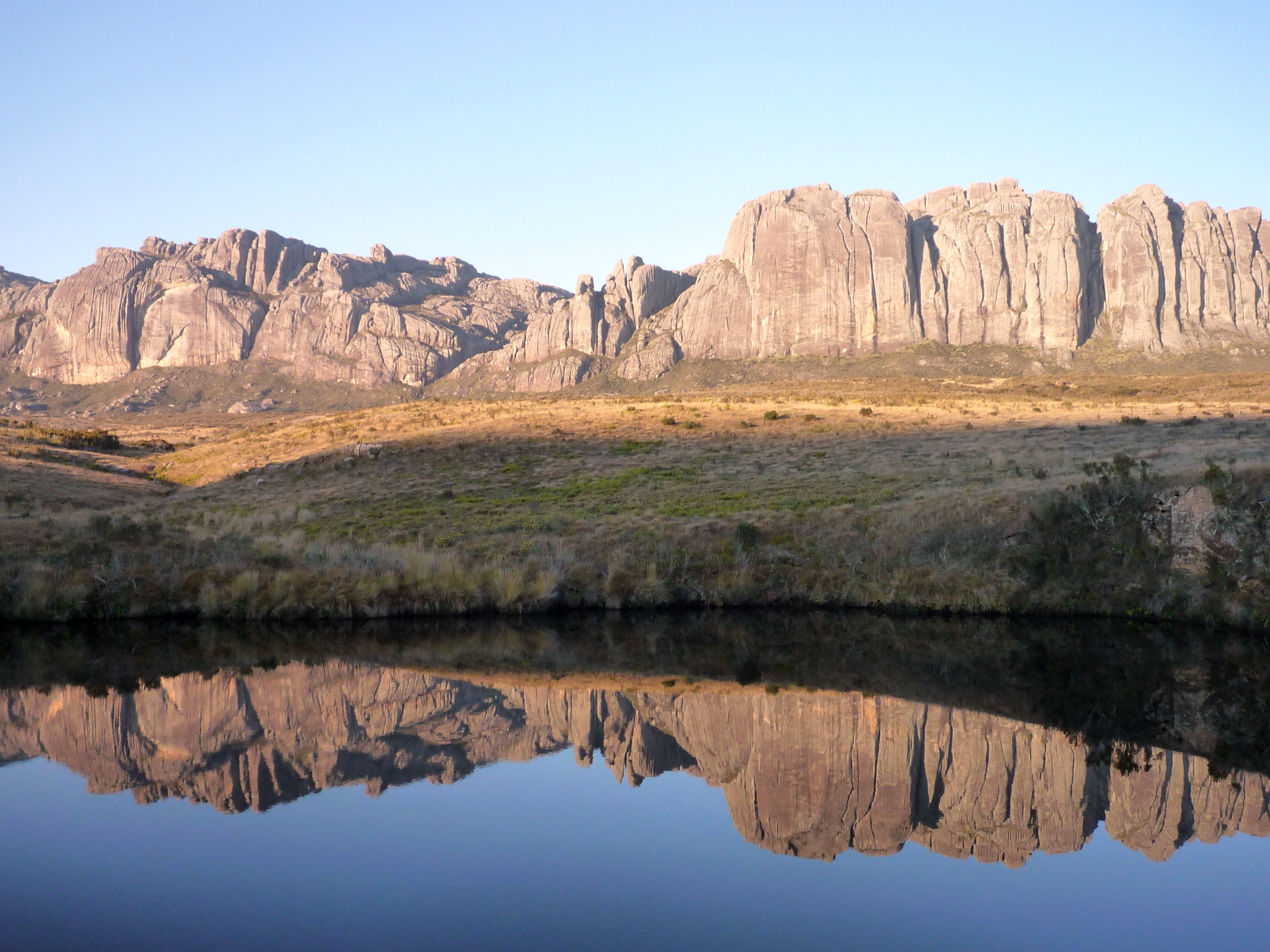 Beautiful morning in the mountains, Andringitra National Park, Madagascar.